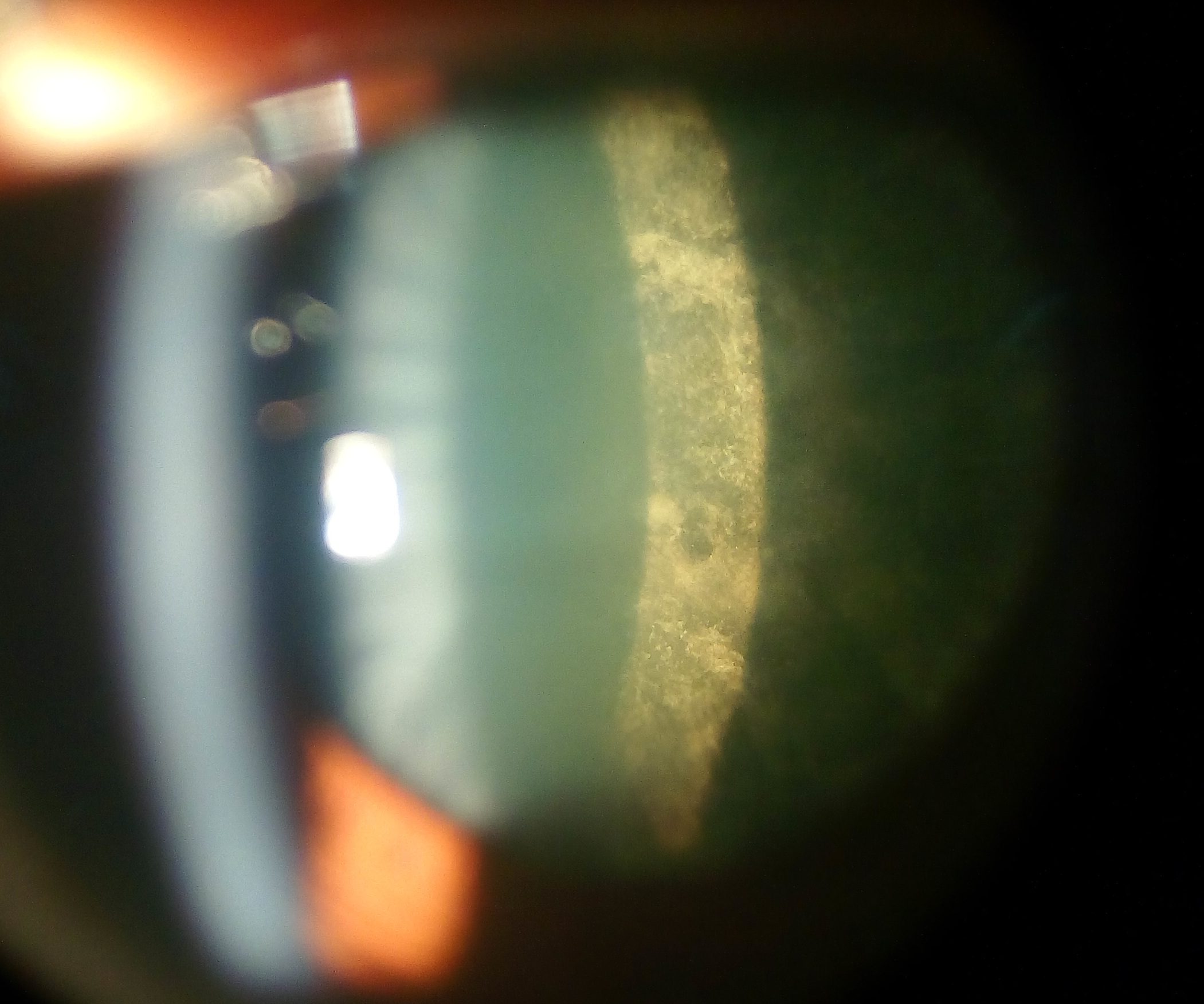 Posterior Subcapsular Cataract of a 16 years old girl suffering from IDDM